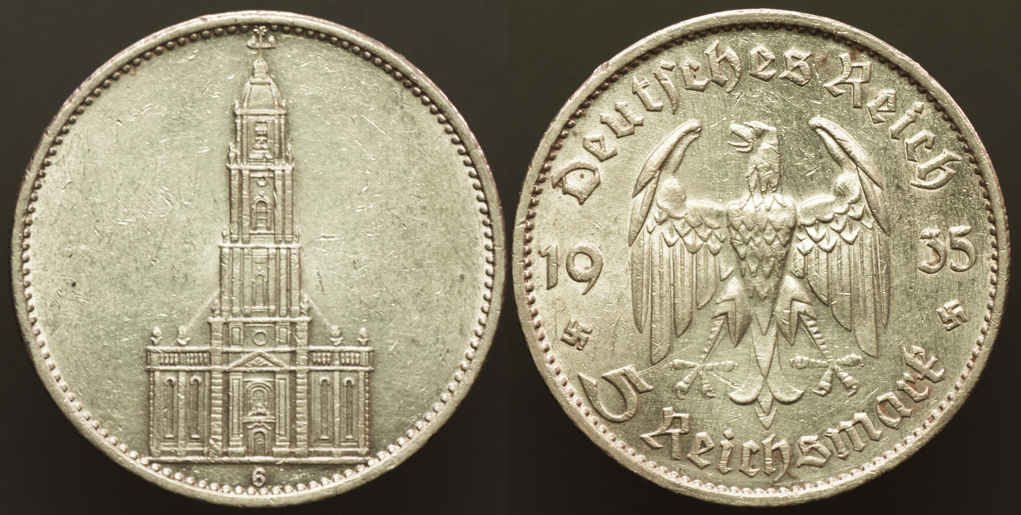 Germany - 3rd Reich, 5 Reichsmark 1935 - G (Karlsruhe,w/o date). Potsdam Garrison Church.